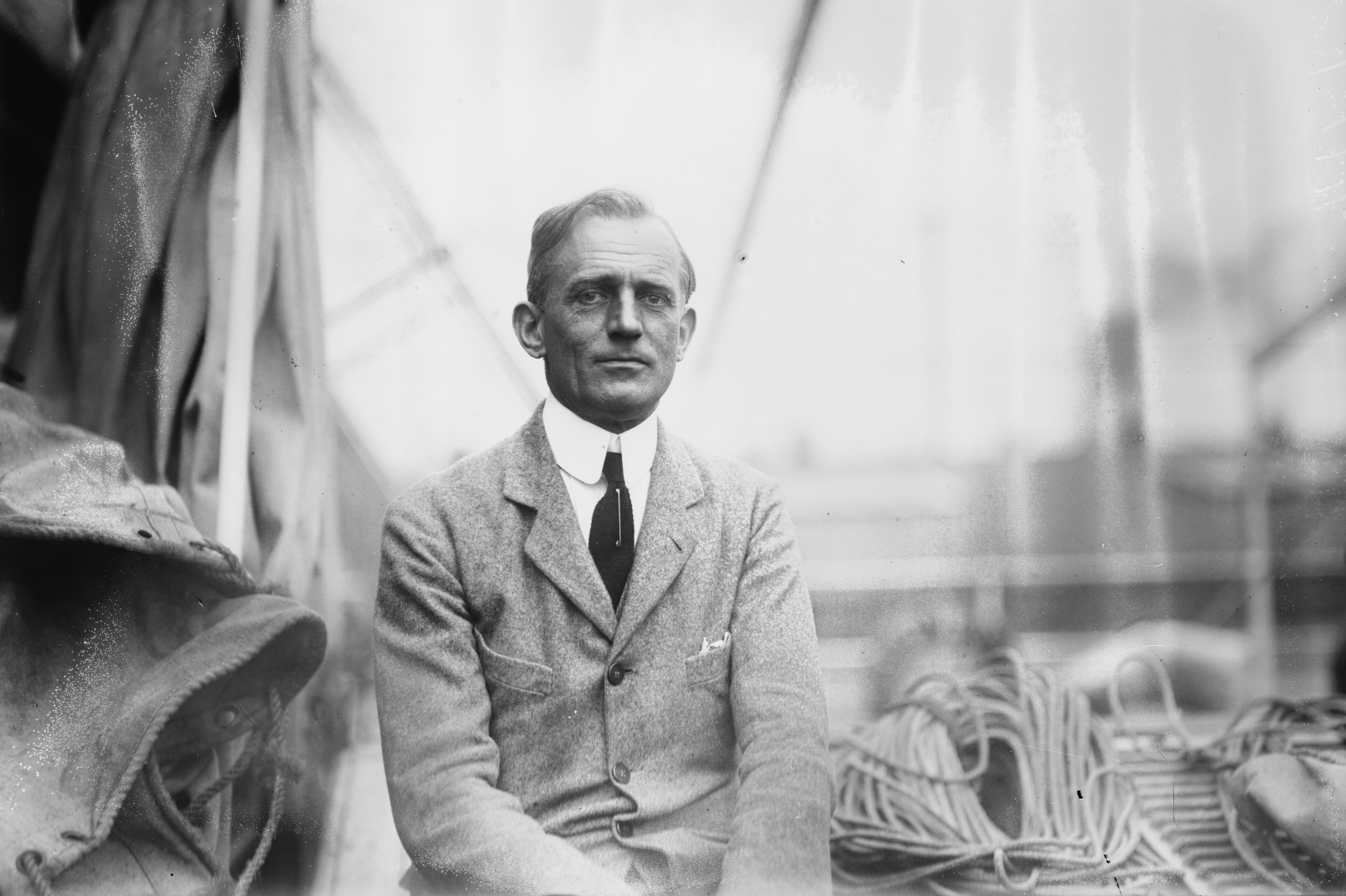 Portrait of classical composer Rosario Scalero, in unknown maritime setting. Neighboring dated images from the series are from 1919.